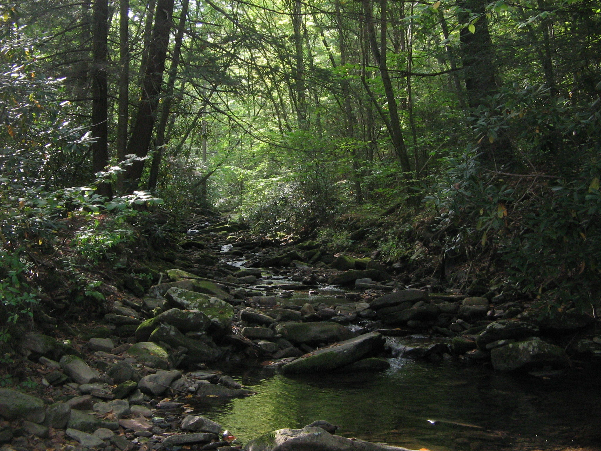 Upper Pine Bottom Run in Upper Pine Bottom State Park, Cummings Township, Lycoming County, Pennsylvania, USA